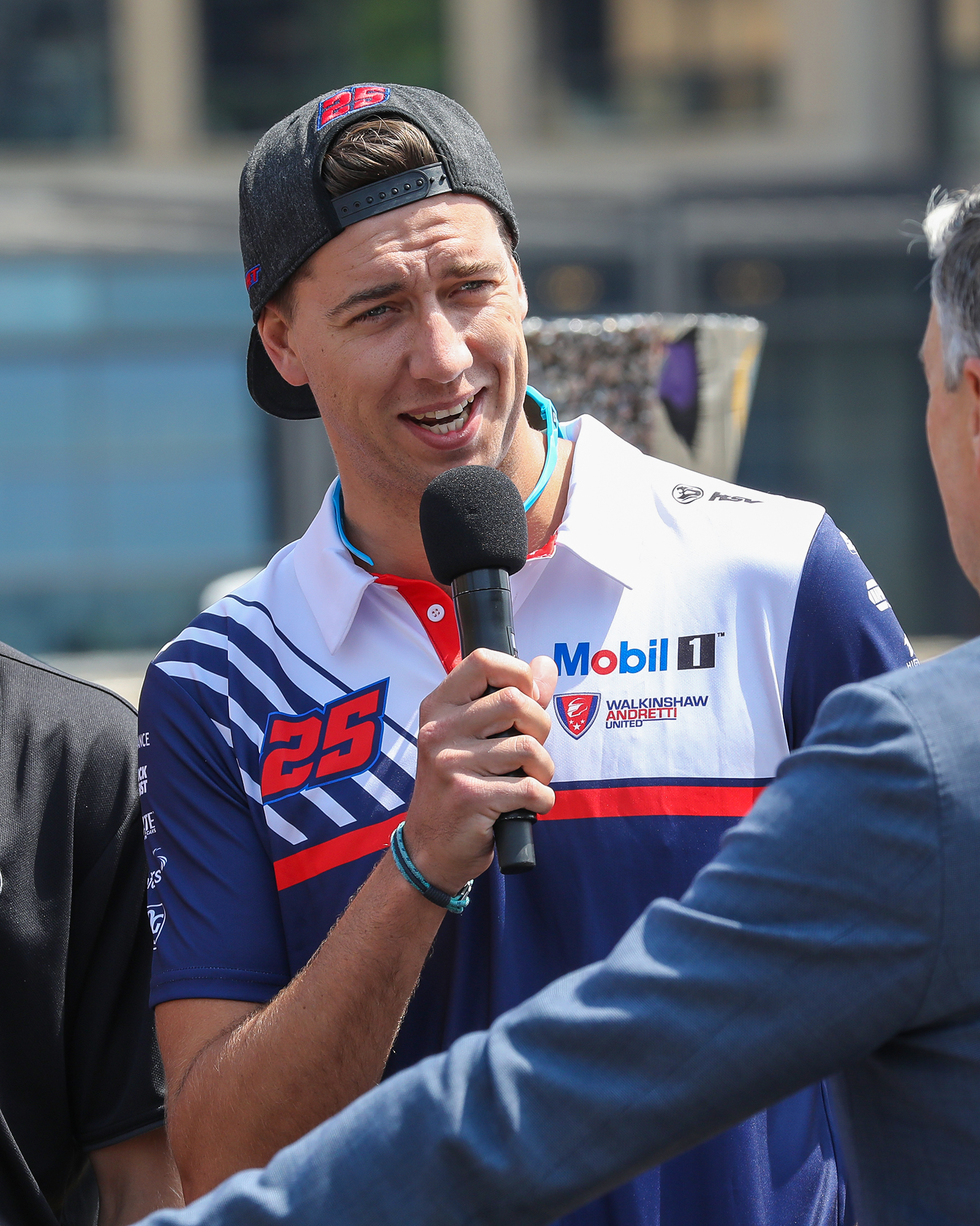 Chaz Mostert at the 2020 Supercars season launch